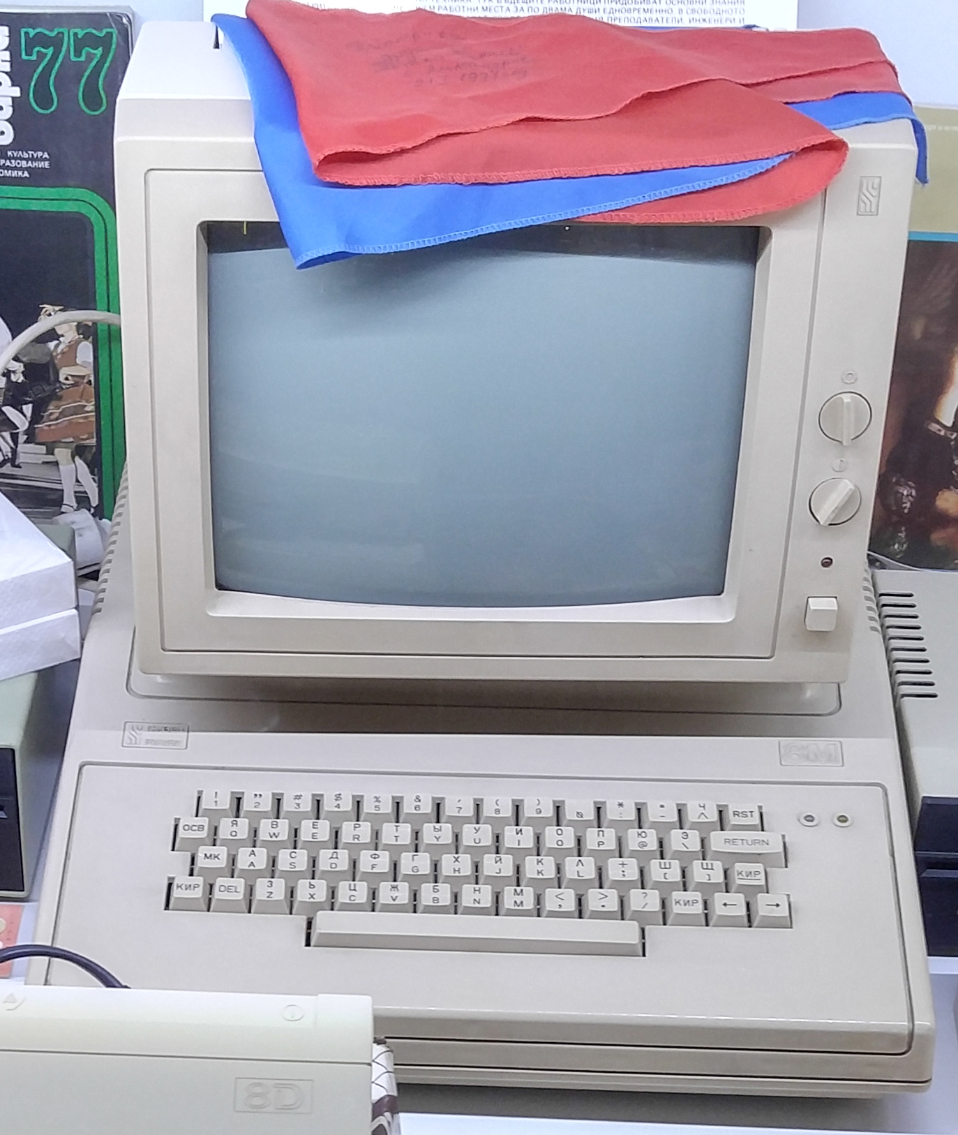 Pravetz 8M at Retro museum Varna